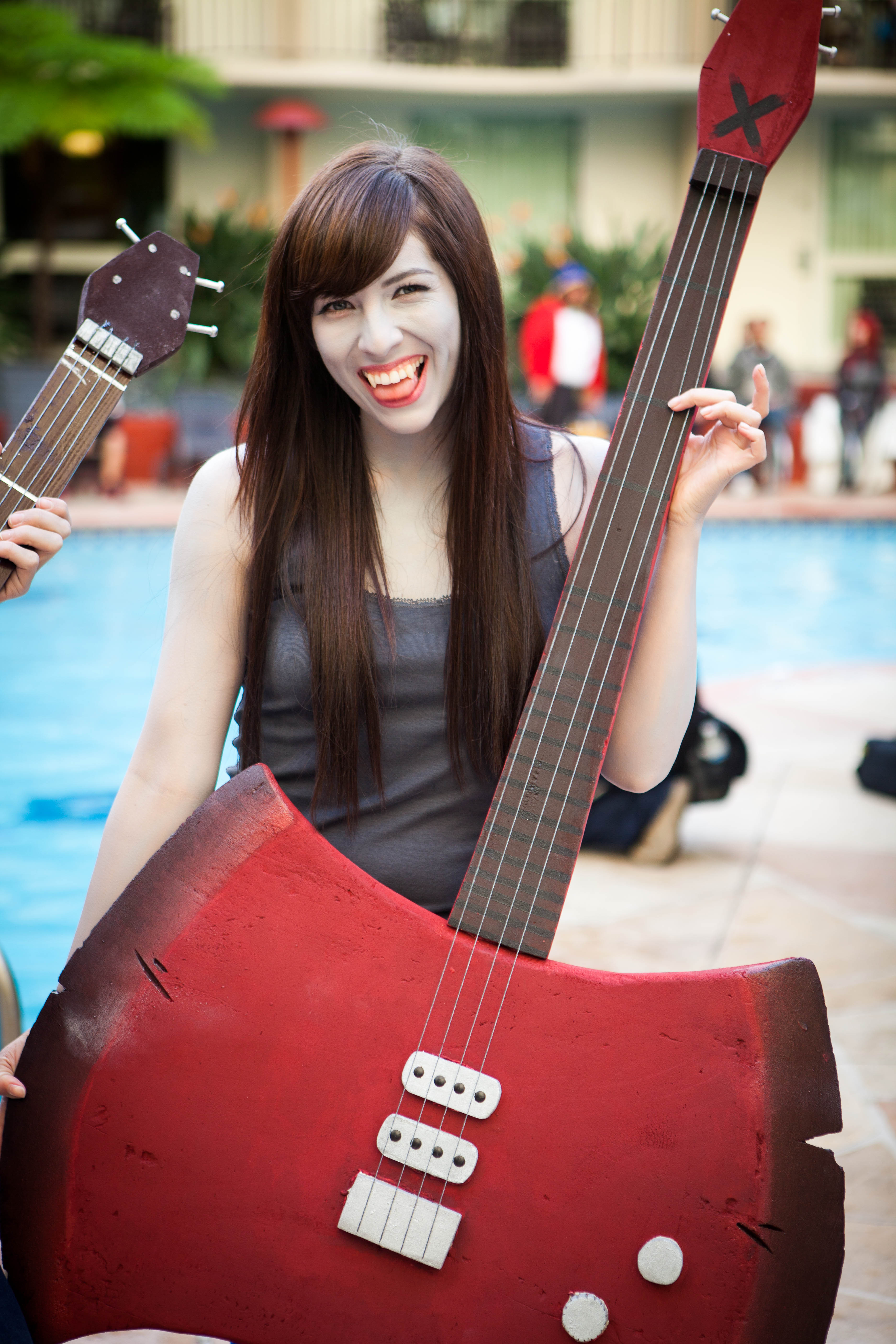 A fan, cosplaying as Marceline the Vampire Queen, a character from the animated series Adventure Time.